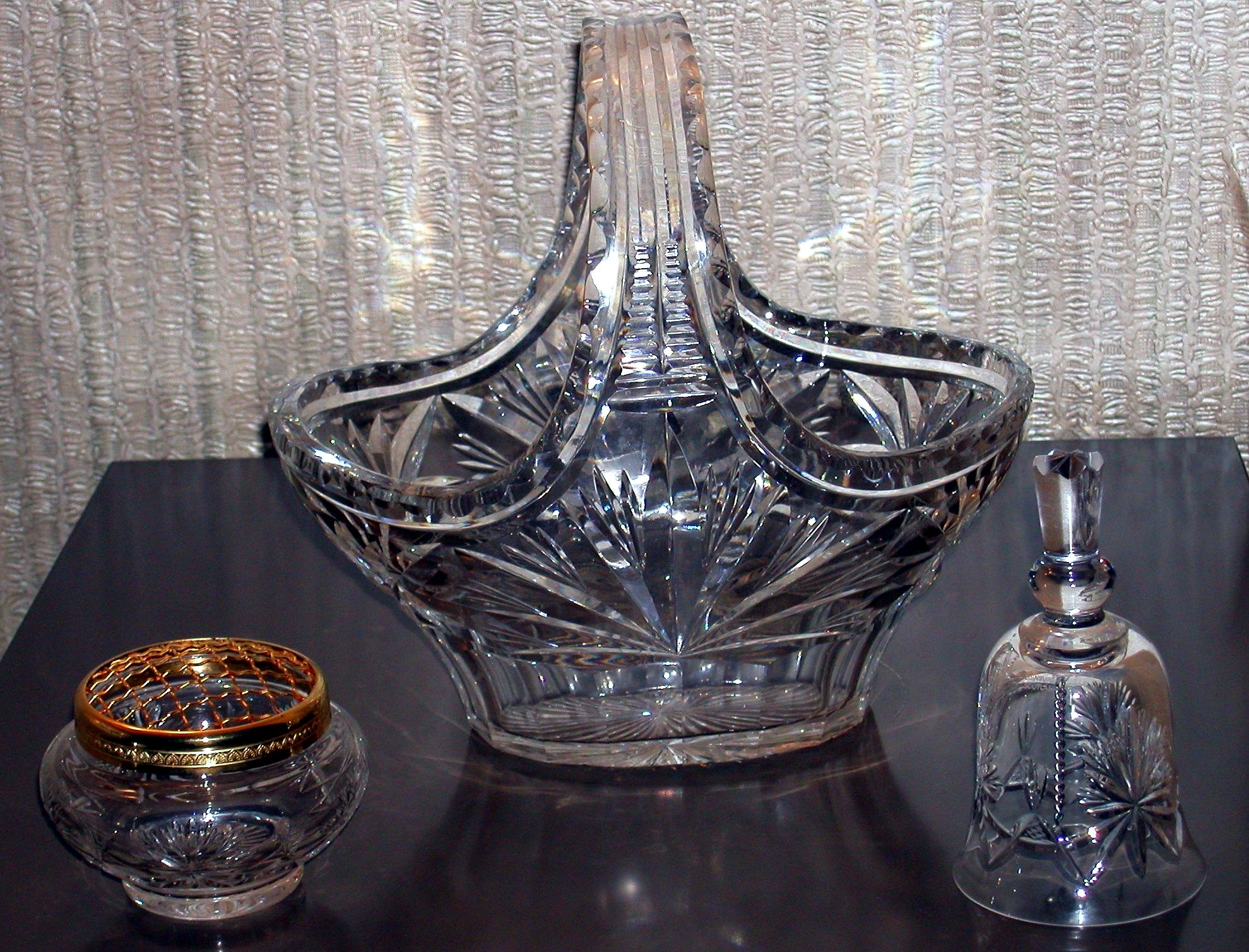 Edinburgh Crystal, Star of Edinburgh - basket, lidded bowl and bell